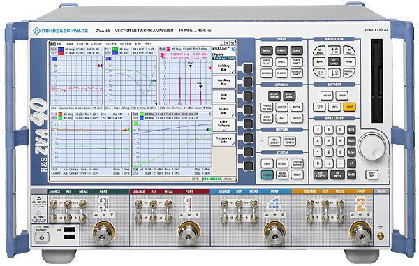 Rohde & Schwarz ZVA40 4-port Network Analyzer